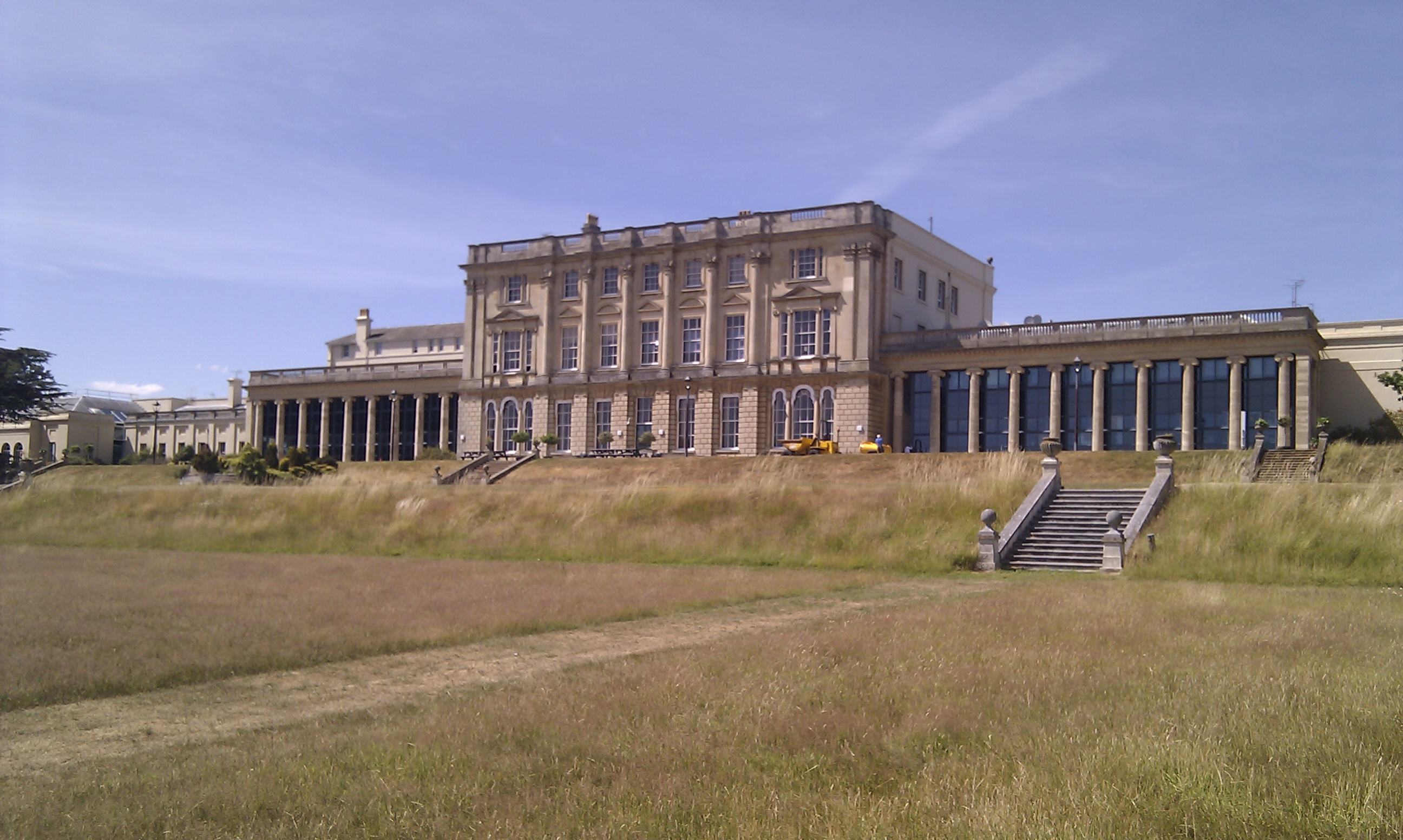 Photo of main building in Caversham Park, Reading. Taken by user on 9 July 2010.